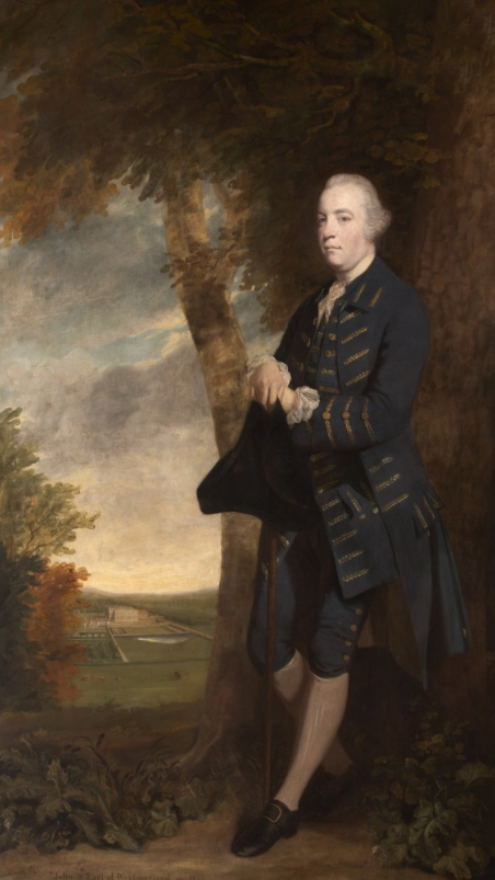 Oil painting on canvas, John Fane, 9th Earl of Westmorland (1728-1774) by Sir Joshua Reynolds PRA in 1764. Apethorpe Hall in the background.